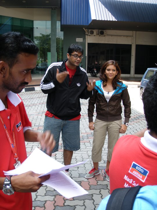 Aktifpedia